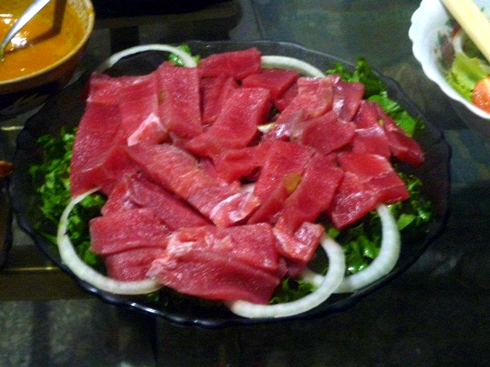 picture of sashimi